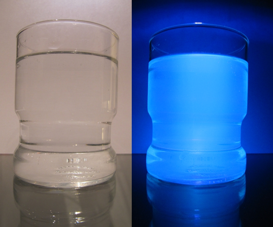 Tonic Water under regular and UV light (the chinin makes it glow in the dark).